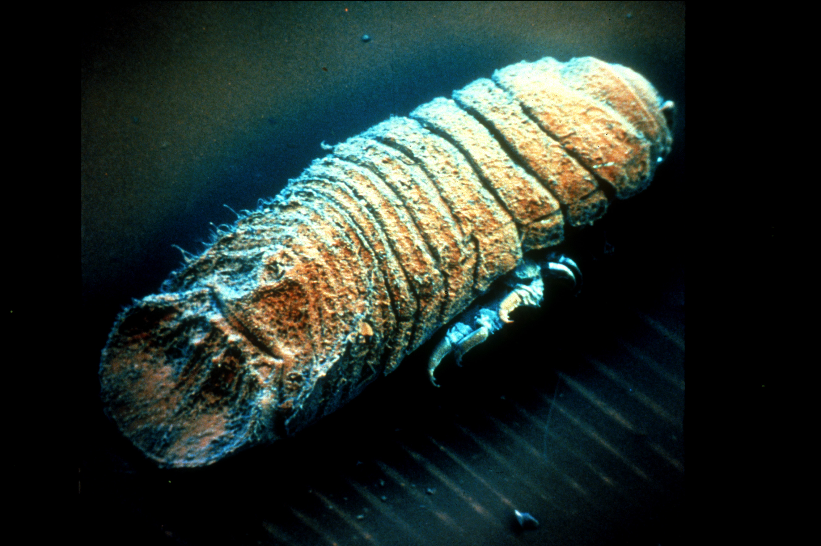 A scanning electron microscope (SEM) image of Limnoria Quadripunctata.